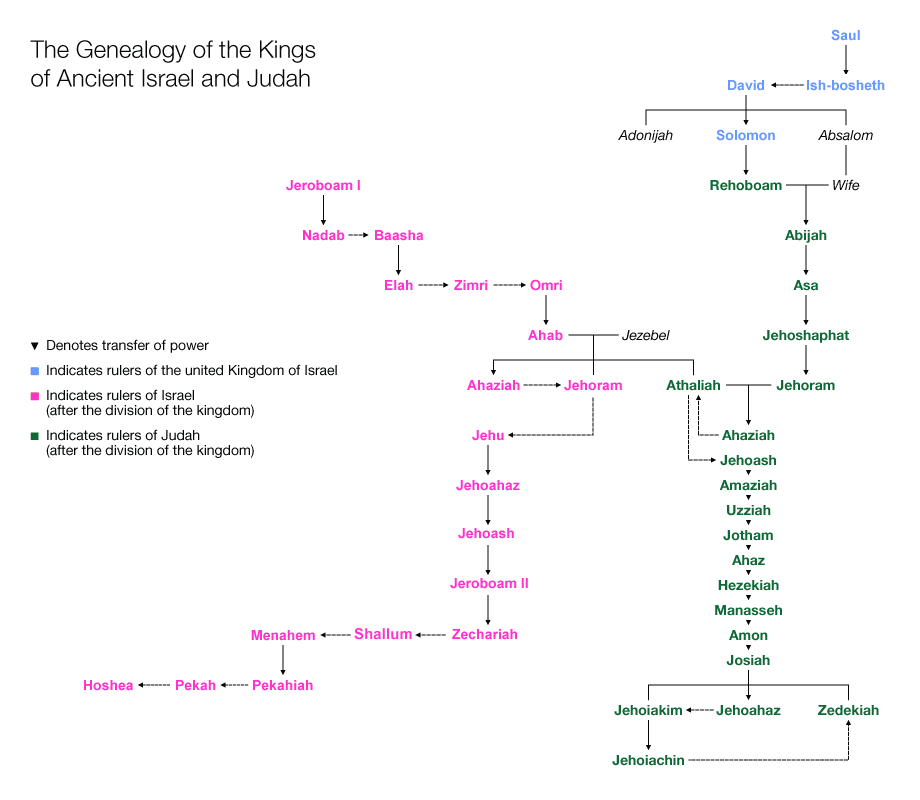 The genealogy of the kings of Israel and Judah. Based on a literal interpretation of 1 and 2 Kings. Note: In the kings of Israel, a horizontal arrow can indicate a change of dynasty (lack of known genealogical connection).